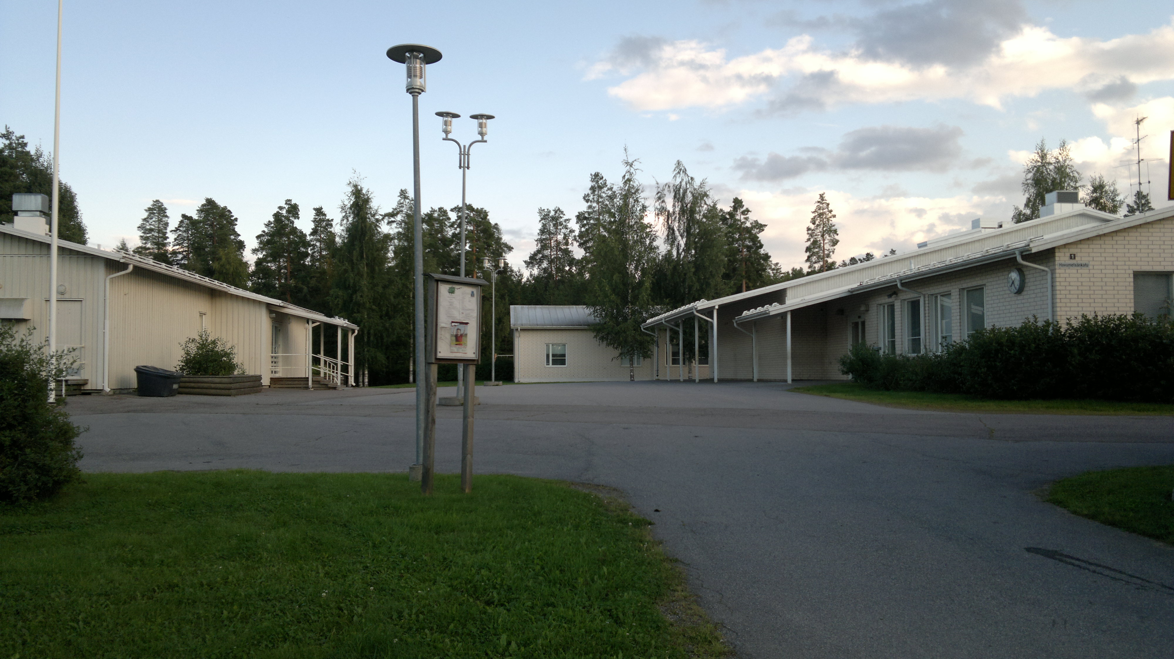 Hallila school in Tampere, Finland.